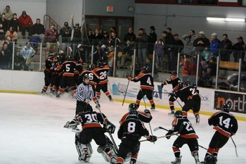 Amherst Hockey Section Champions and State Semis